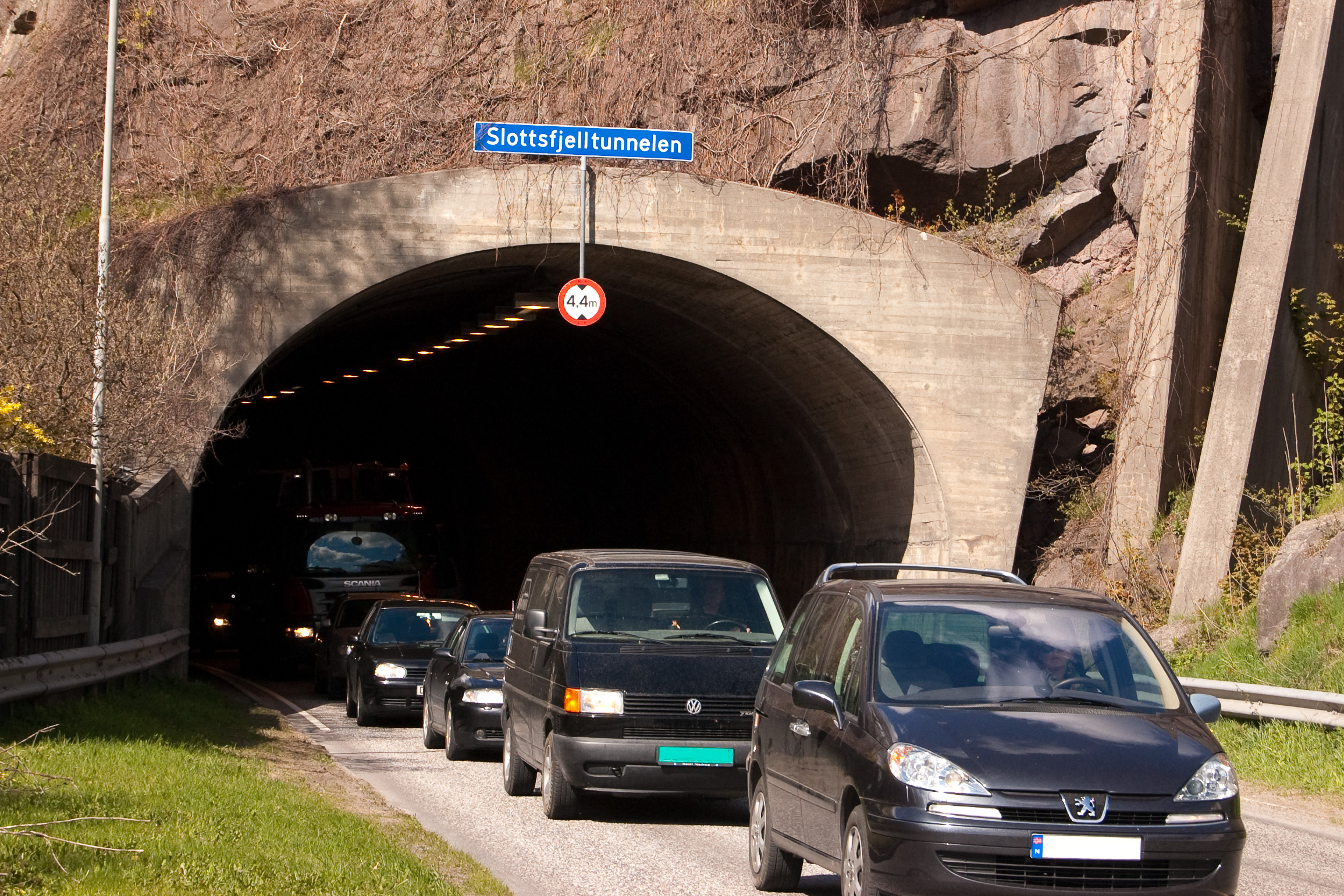 Slottsfjelltunnelen in Tønsberg, Norway